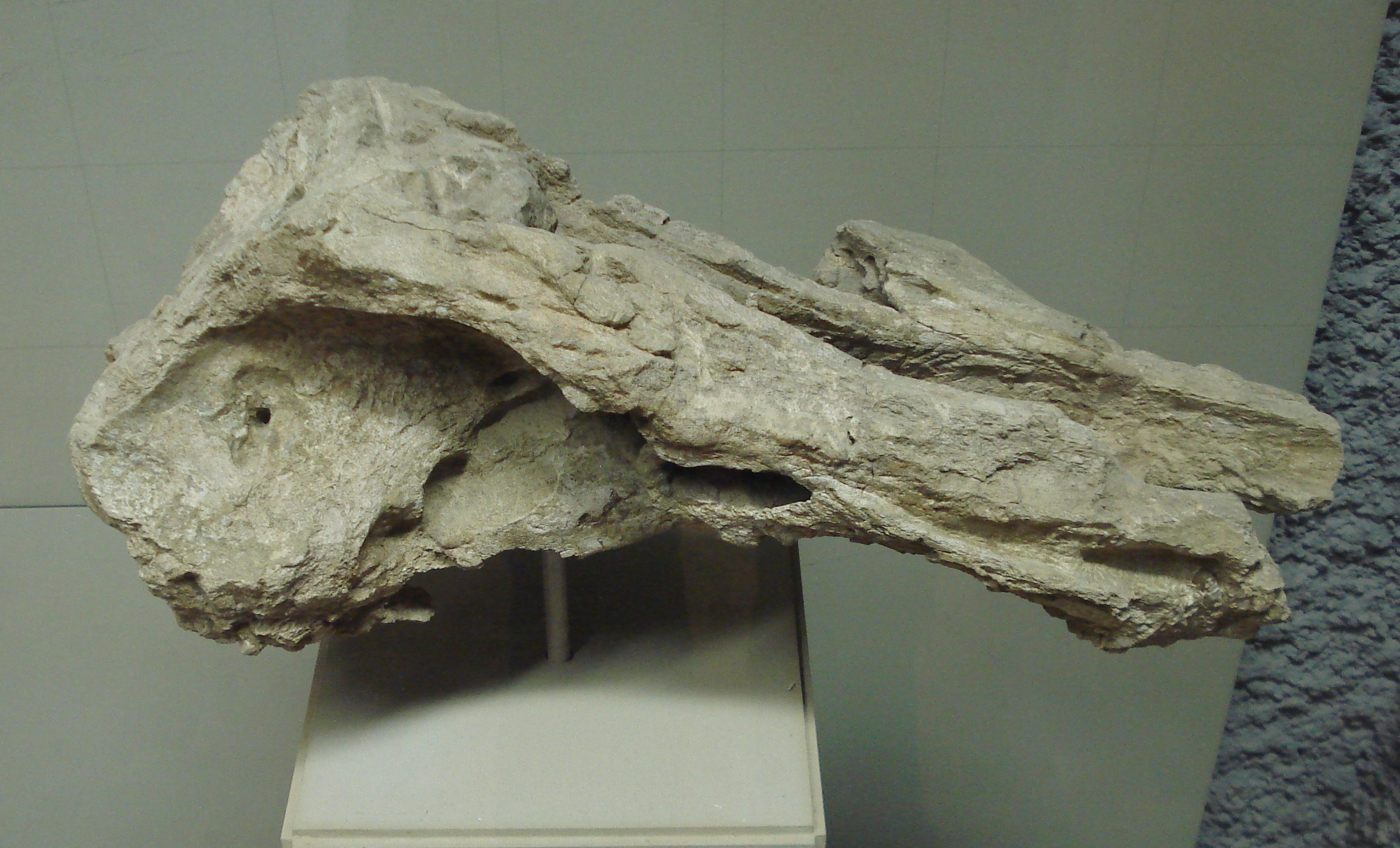 Squalodon species skull fossil